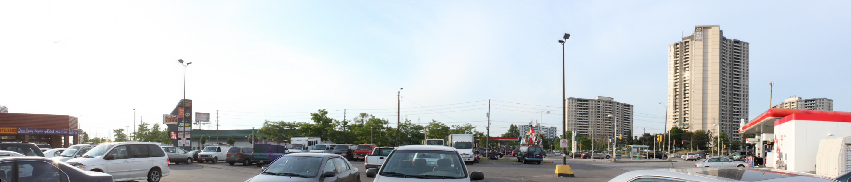 South-West of Jane & Finch